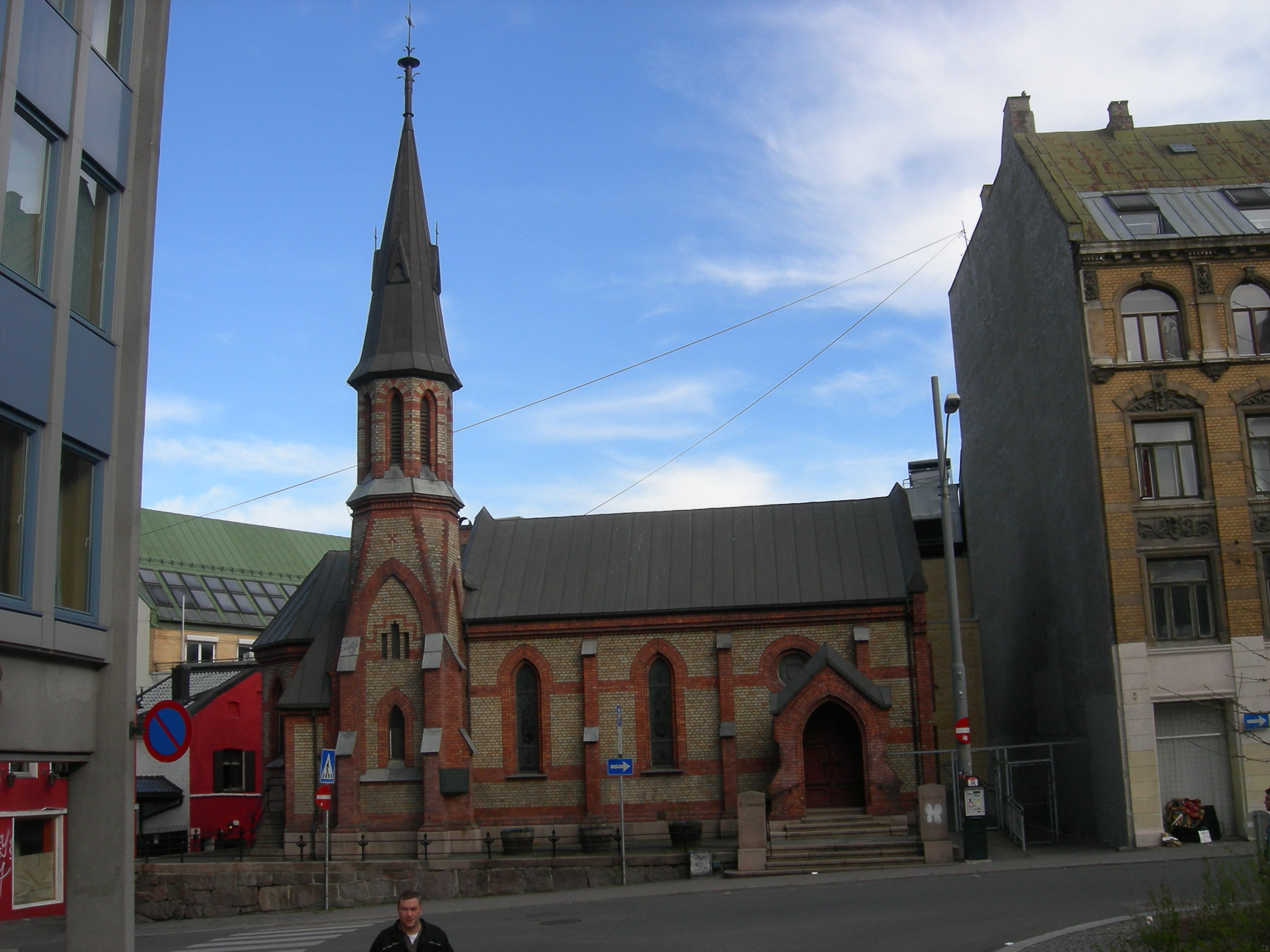 St. Edmund's anglican church, Møllergata, Oslo, Norway